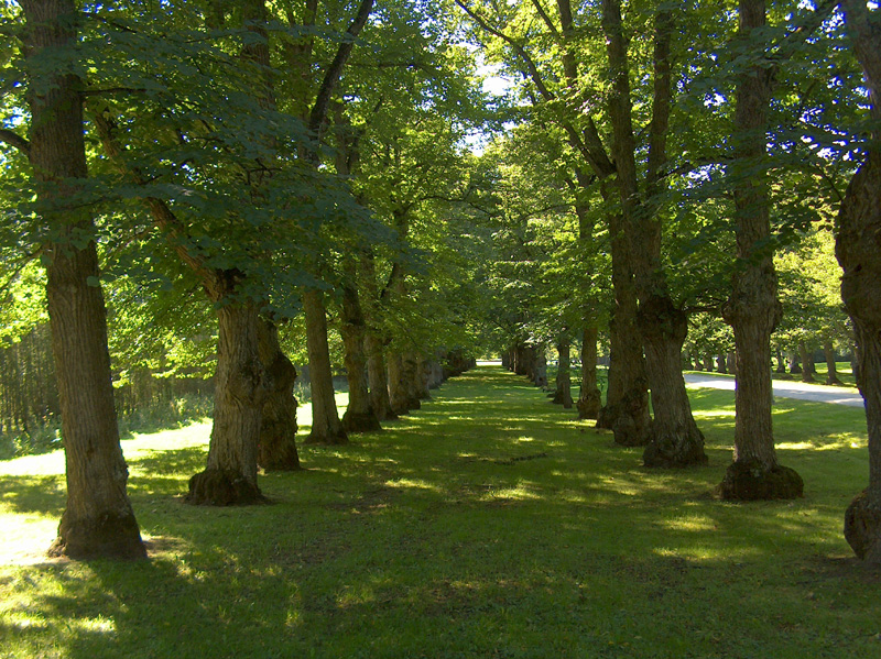 Park (Old Vaasa) in Mustasaari, Vaasa, Finland